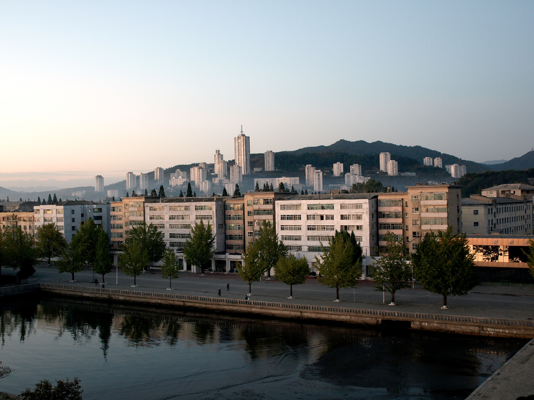 Wonsan in North Korea.